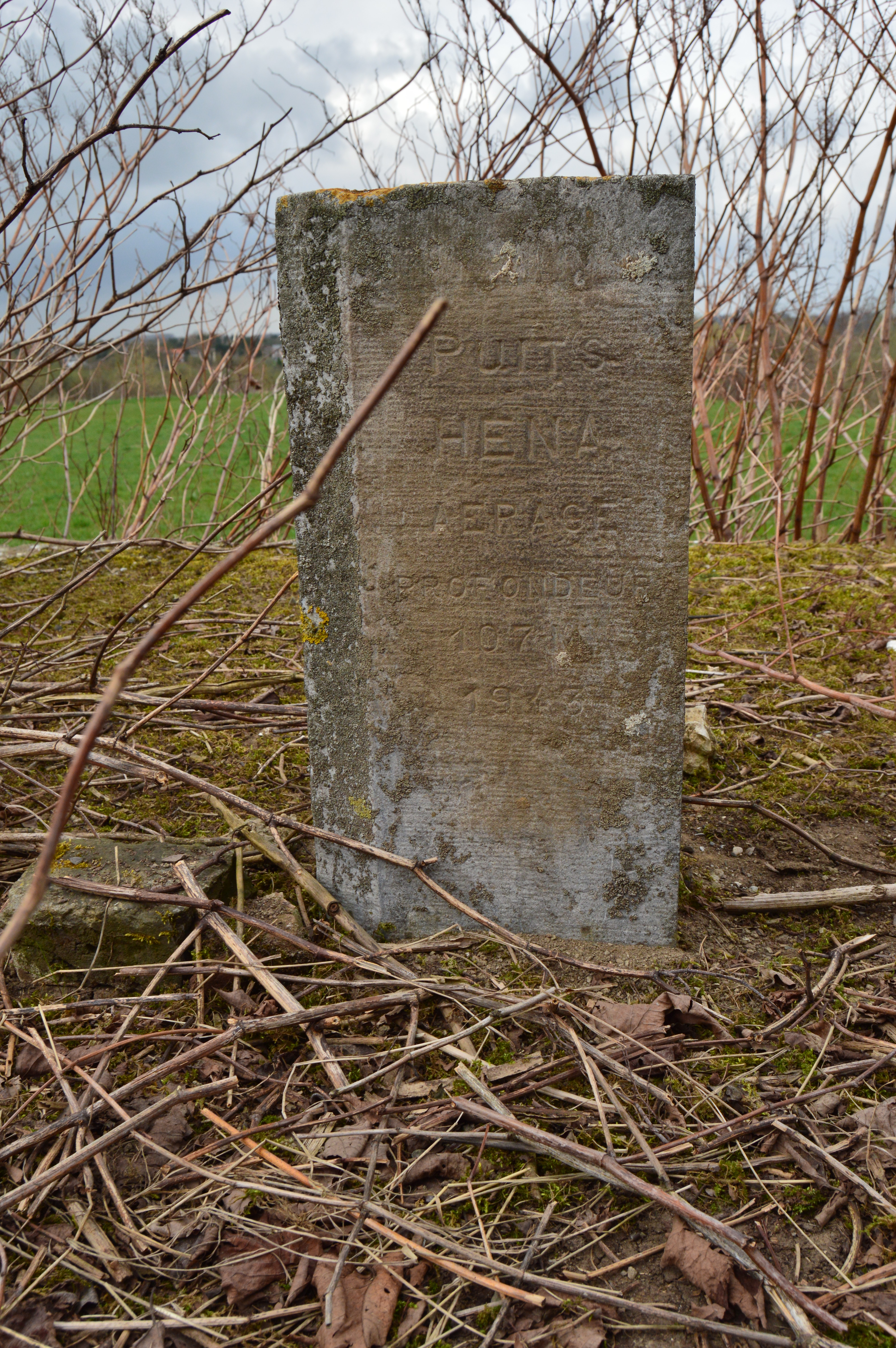 Ancient pit of the Hena coal mine, in Flémalle, Belgium